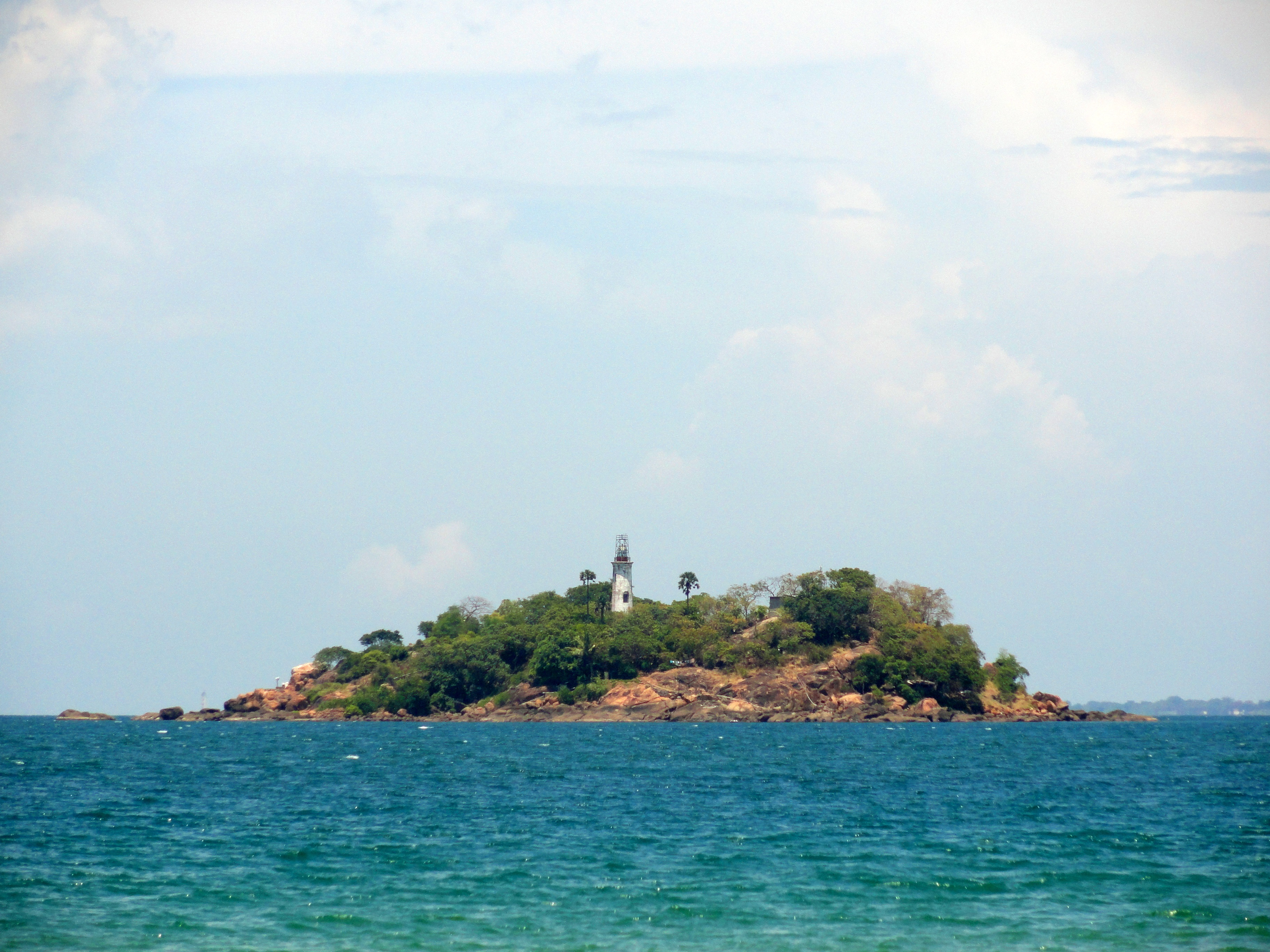 The Round Island Lighthouse, viewed from Marble Beach, Trincomalee, Sri Lanka.